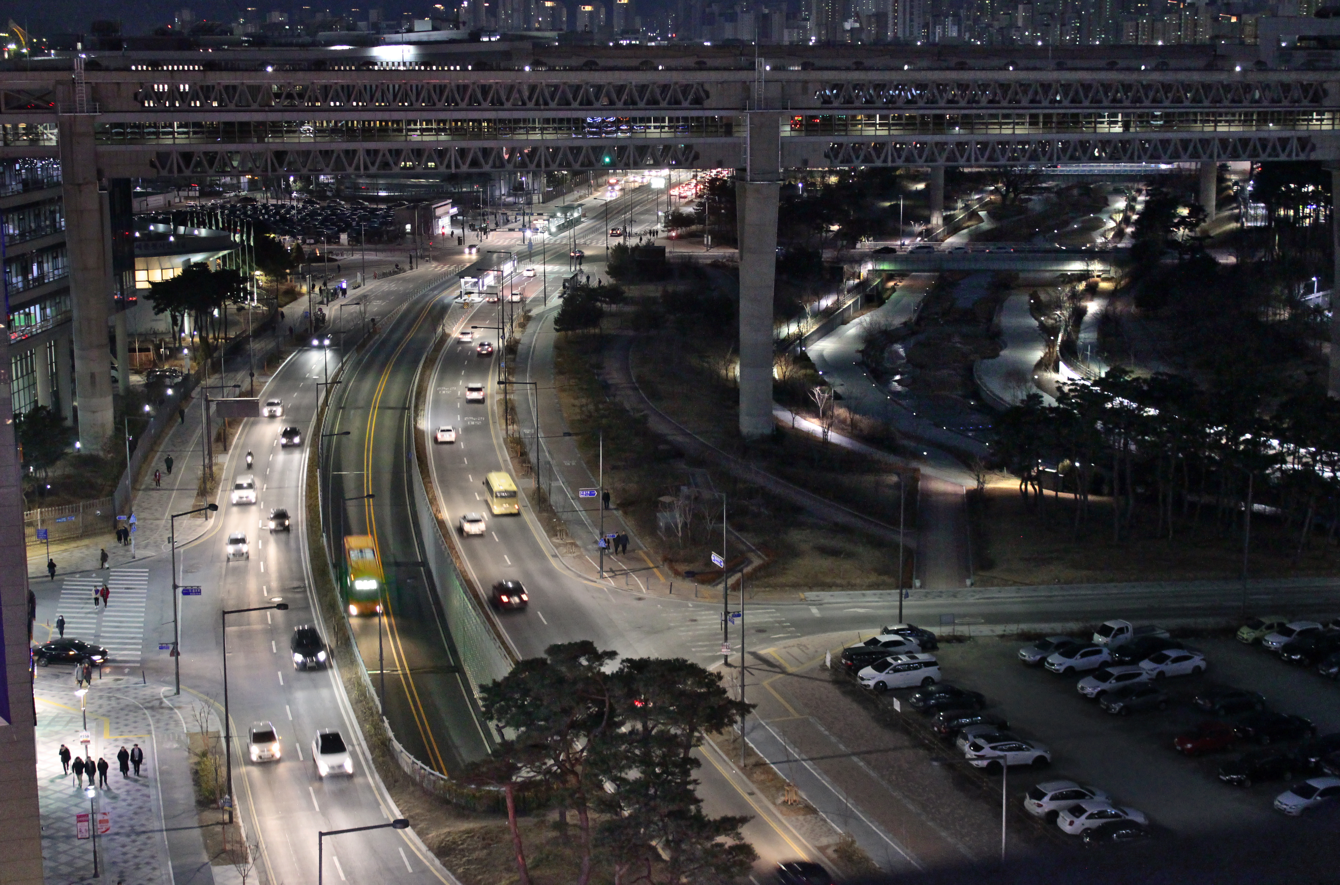 Hannuridaero at night